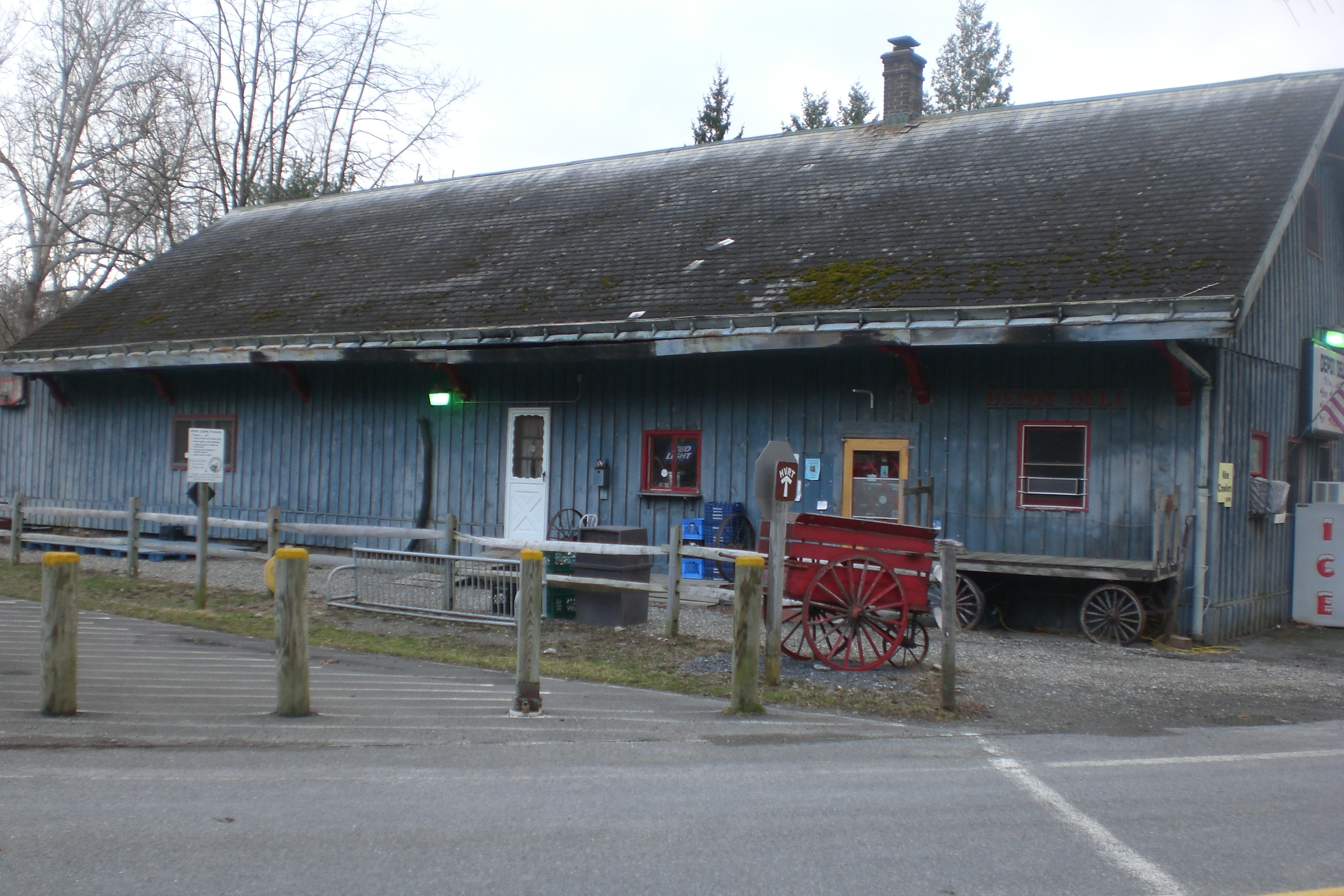 The former Copake Falls NYCRR station